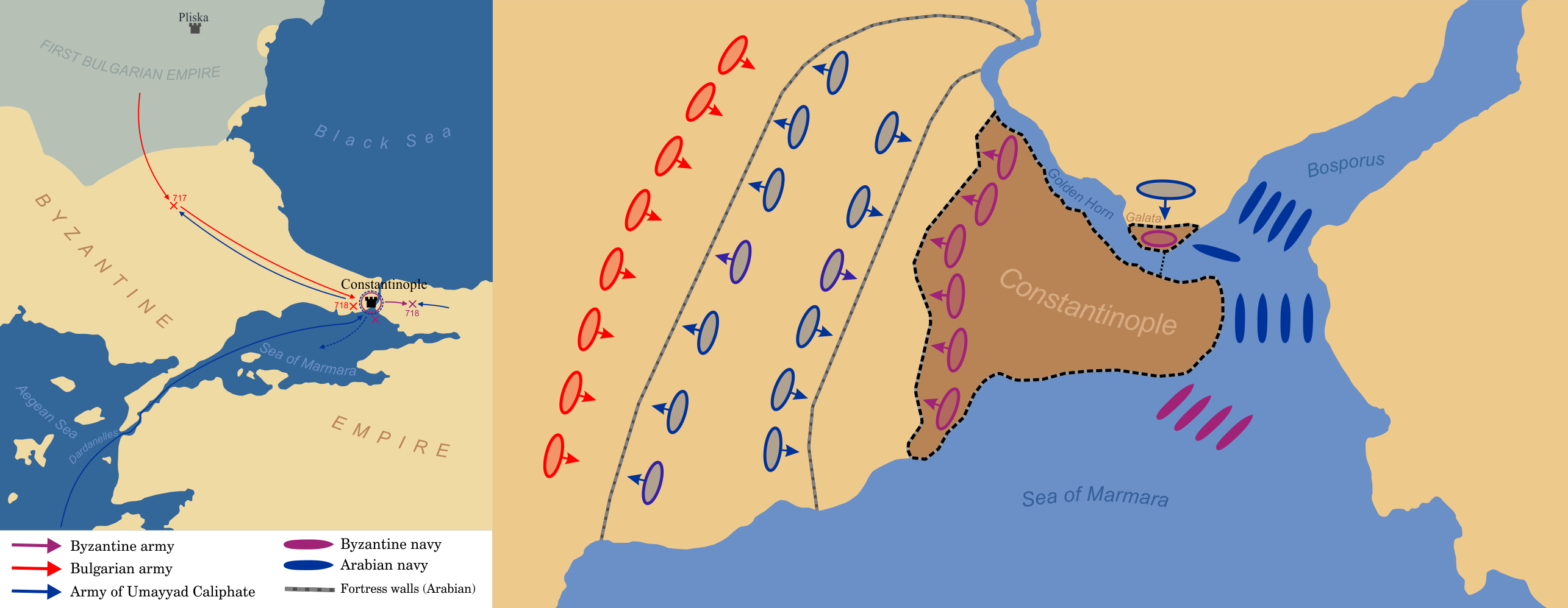 Siege of Constantinople (717–718) - plan Used maps: [2]